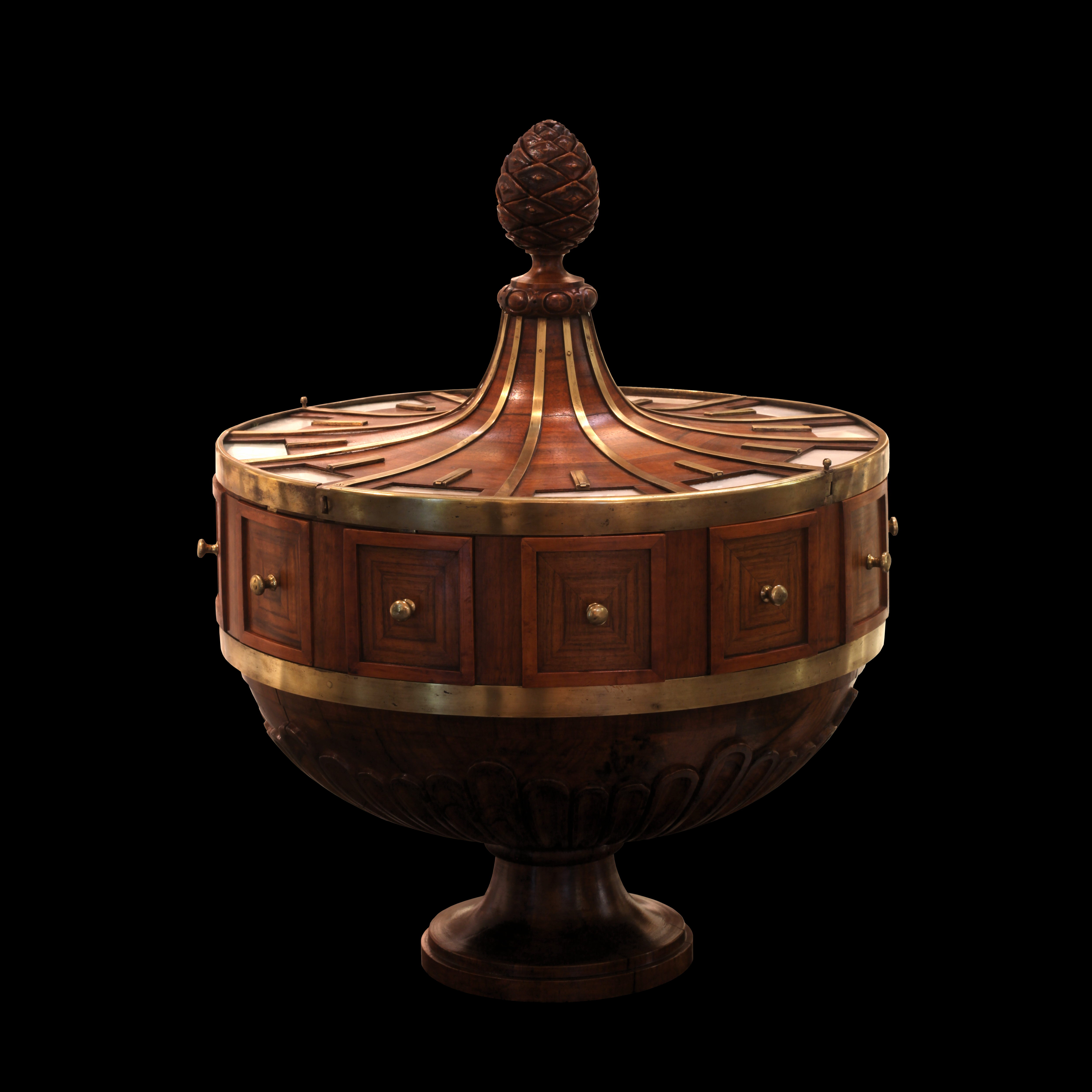 Ballot box used to elect membres of the Grand Conseil of the city of Neuchâtel. Made during the 18th century, used until 1848. Walnut and brass. Accession number AA 6397.